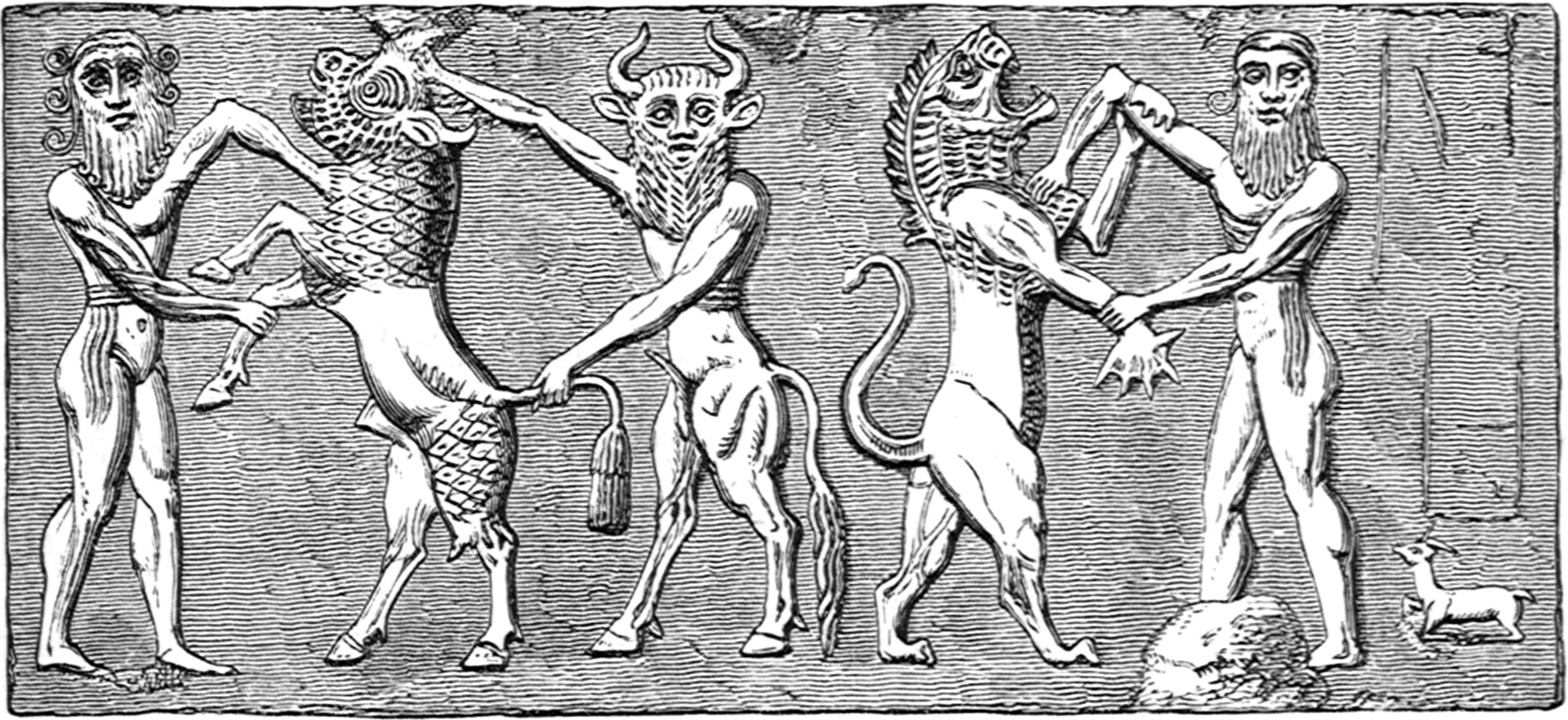 Caption in book reads: "Izdubah and Heabani in conflict with the lion and bull".